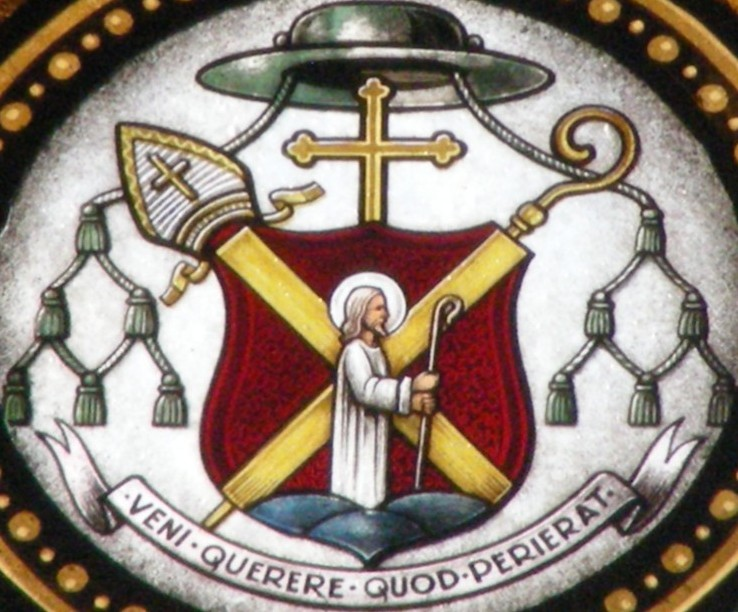 Coat of arms of Jozef Čársky, bishop of Košice, Slovakia (1925 - 1939, 1946 - 1962). Stained-glass window in Mary, Queen of Peace Church in Košice. NB: Lamb is missing.